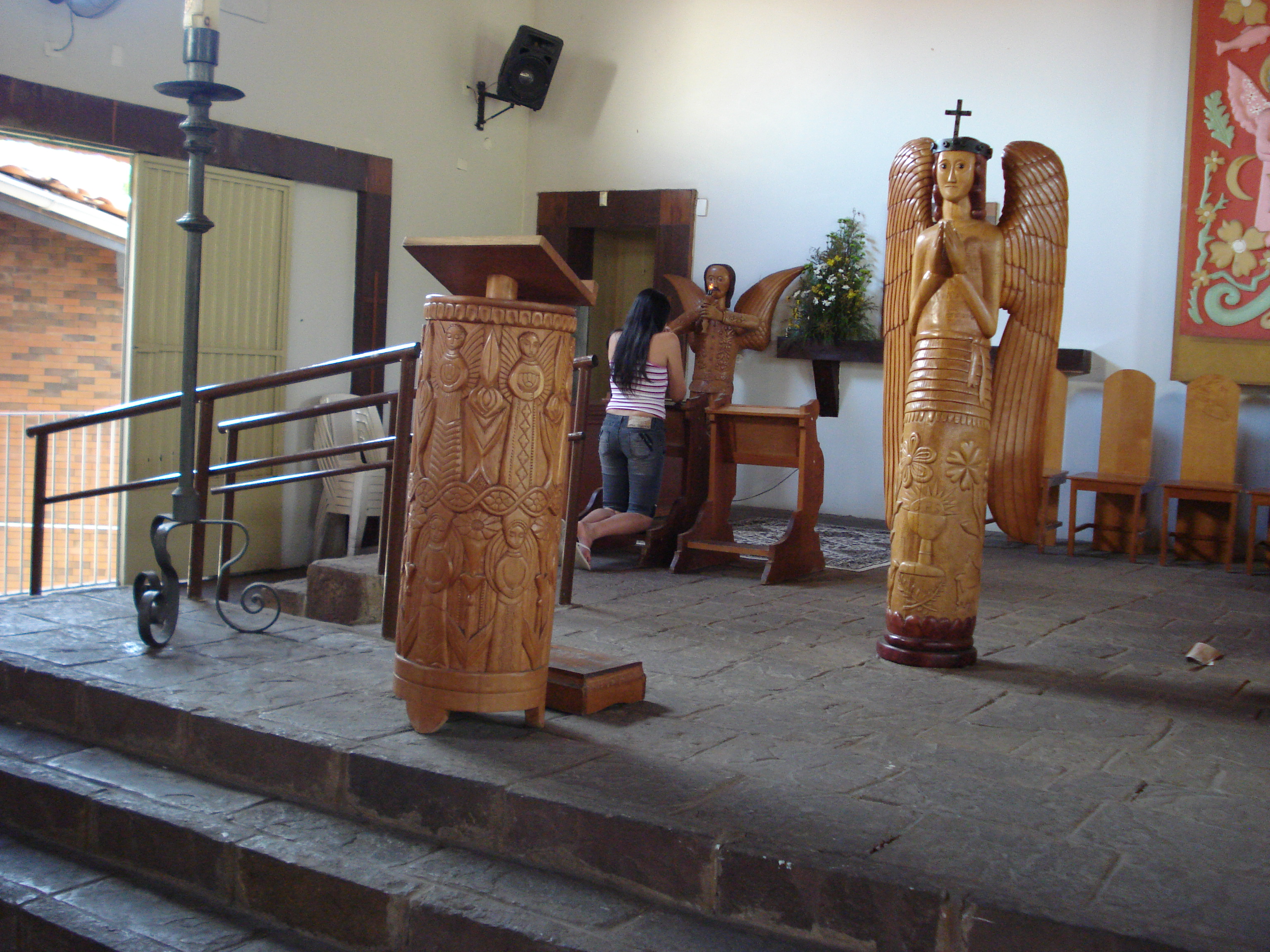 Igreja Nossa senhora de Lourdes